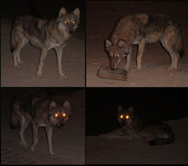 An arabian wolf (Canis lupus arabs) in southern Israel (the southern Arava desert). It has been scavanging alone that night.